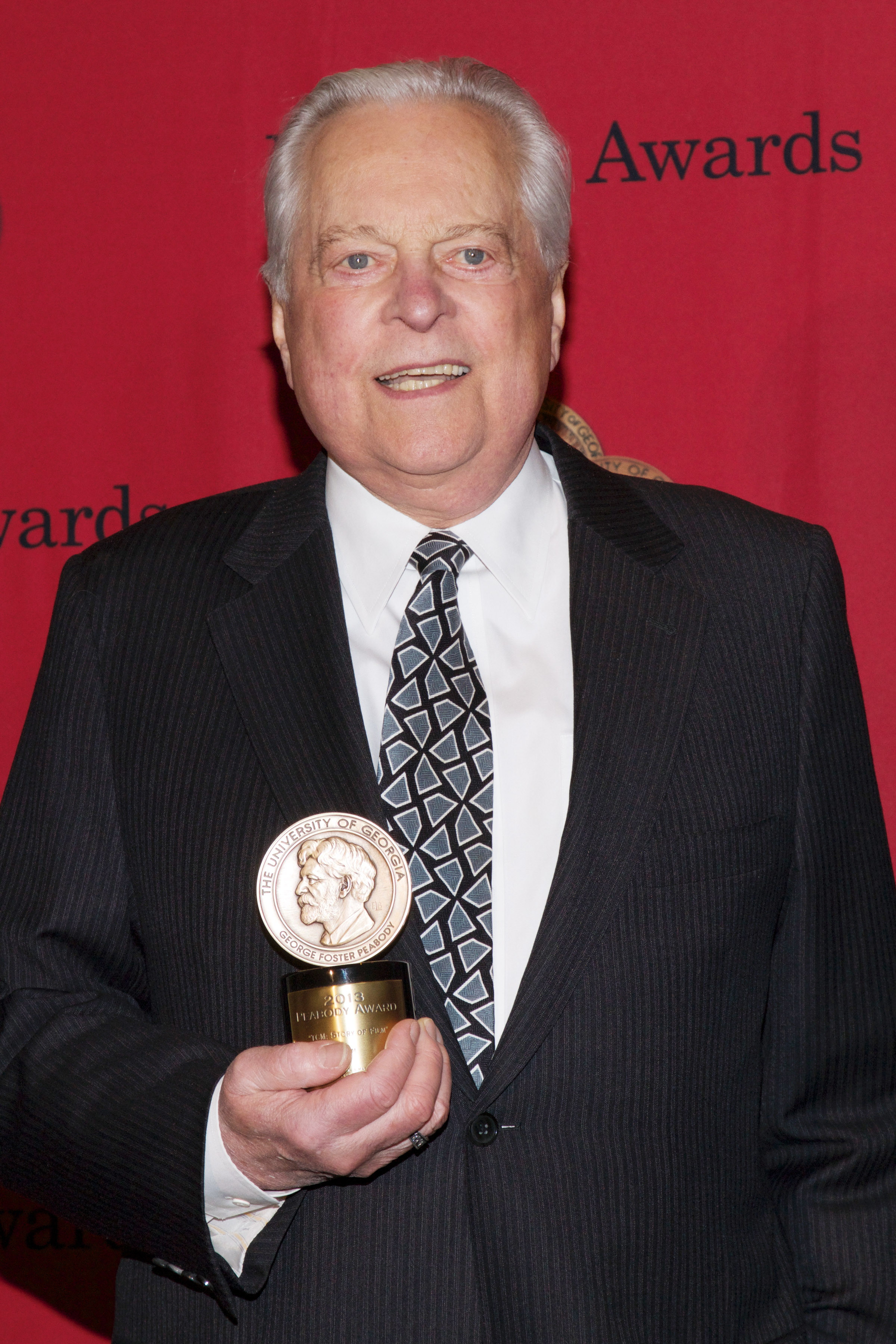 Robert Osborne holding the Peabody Award for TCM's The Story of Film